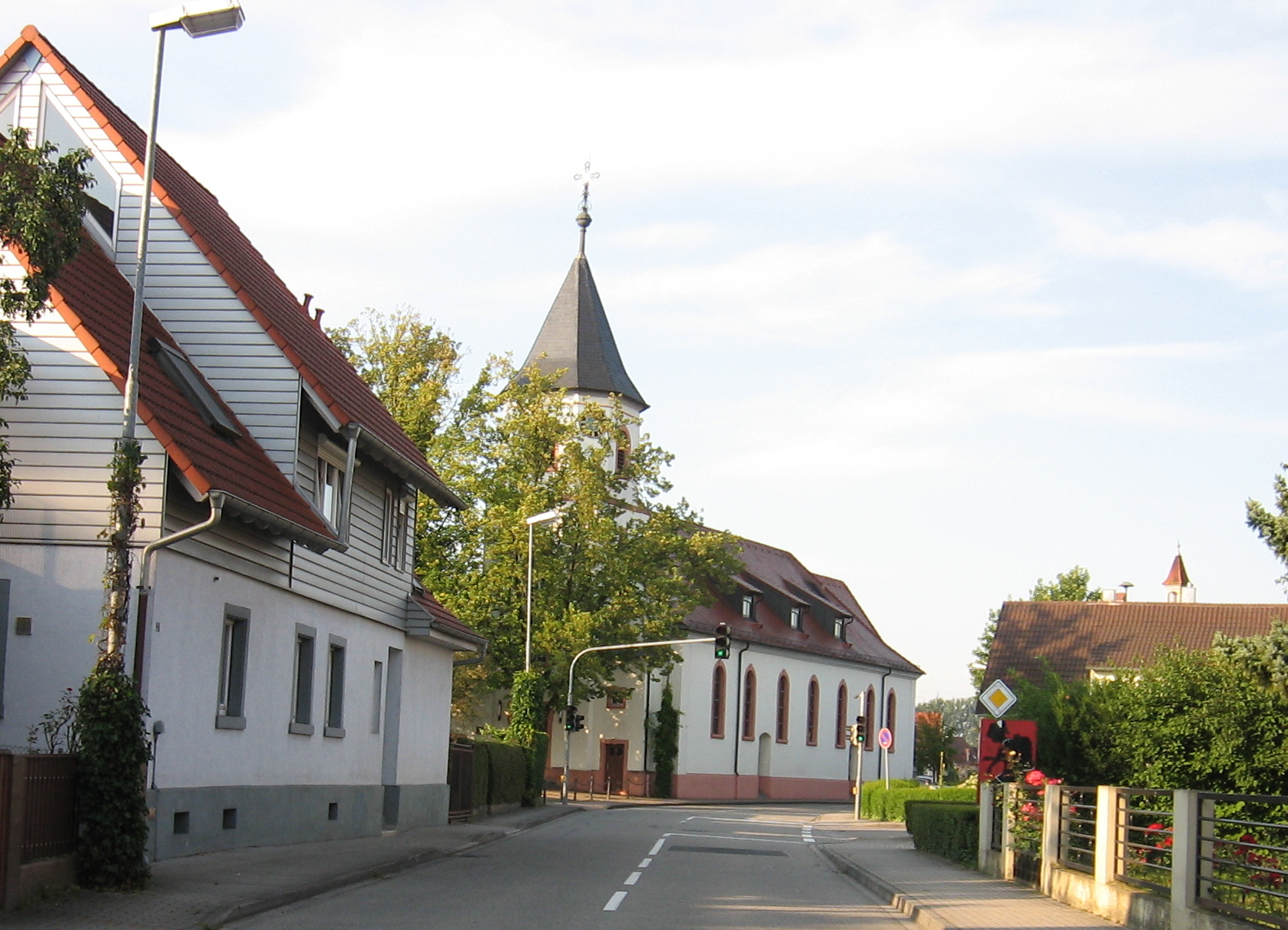 Elchesheim-Illingen